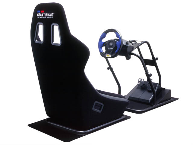 Photography of a Sparco Racing Cockpit (LPSK-01002).